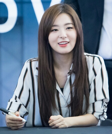 Kang Seul-gi at Red Velvet Skechers Fansing on August 22, 2017.